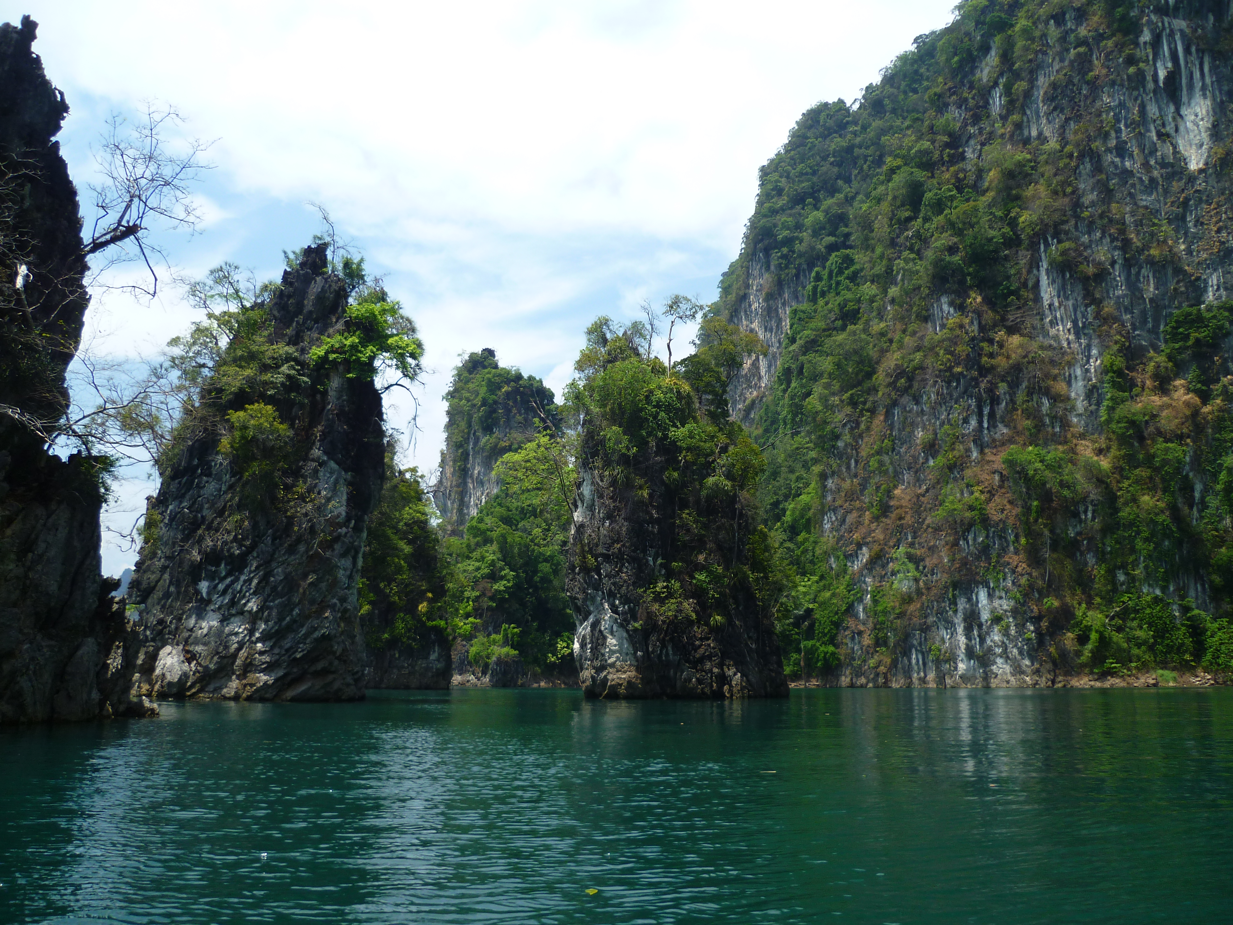 Three significant limestone rocks in the Chiew Lan Lake in Khao Sok National Park Thailand. This scenic spot is called the Guilin view.